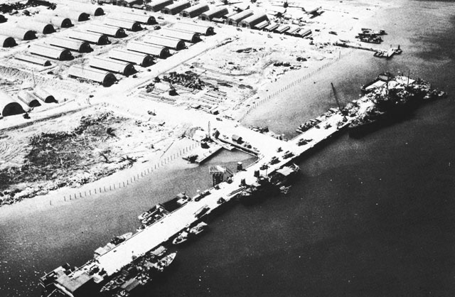 Lombrum Point ship repair dock, Los Negroes built by 11NCB